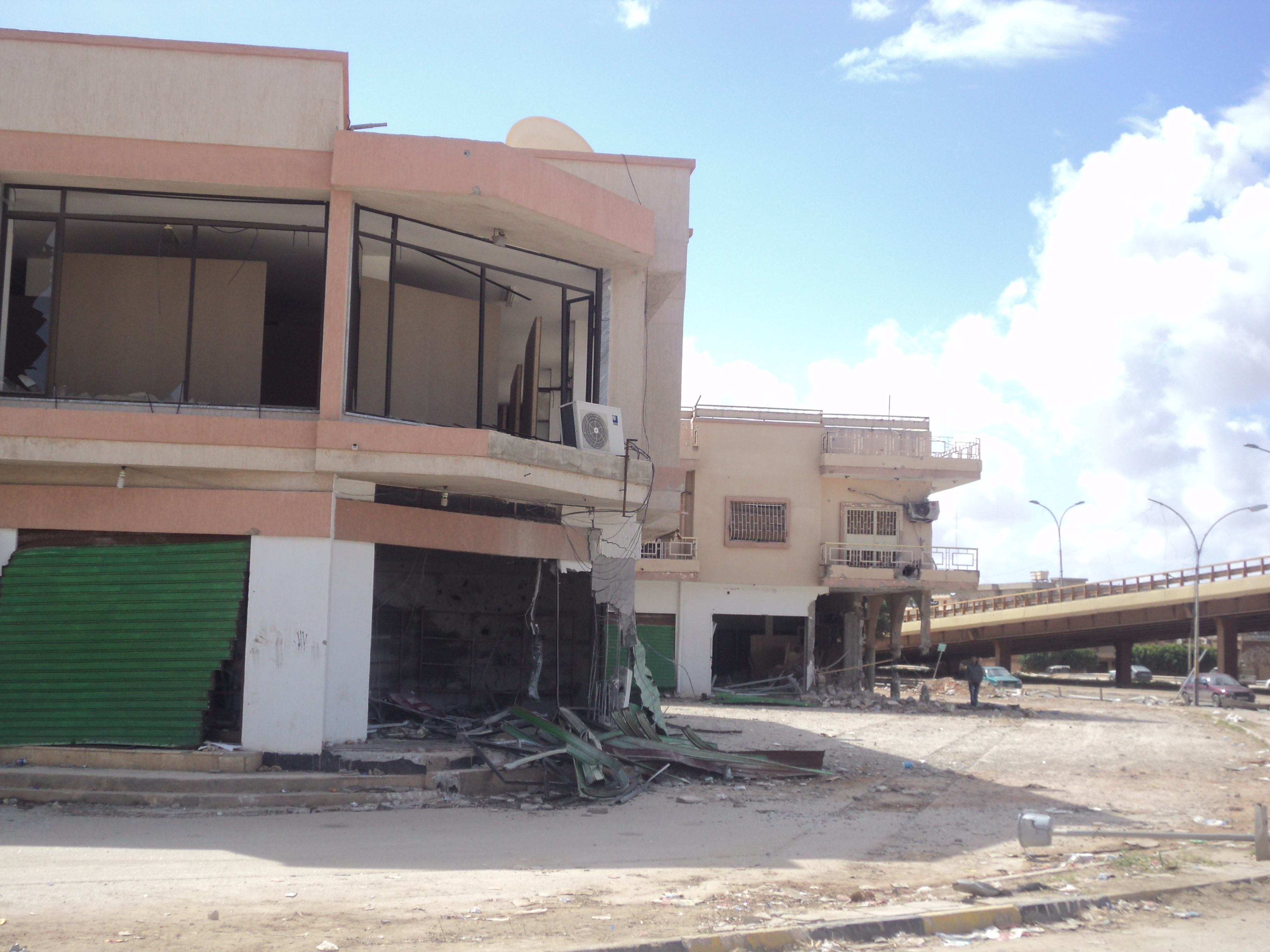 Destruction near Tripoli bridge, Benghazi, as a result of the battle between anti- and pro-Qadafi forces on March 19, 2011.